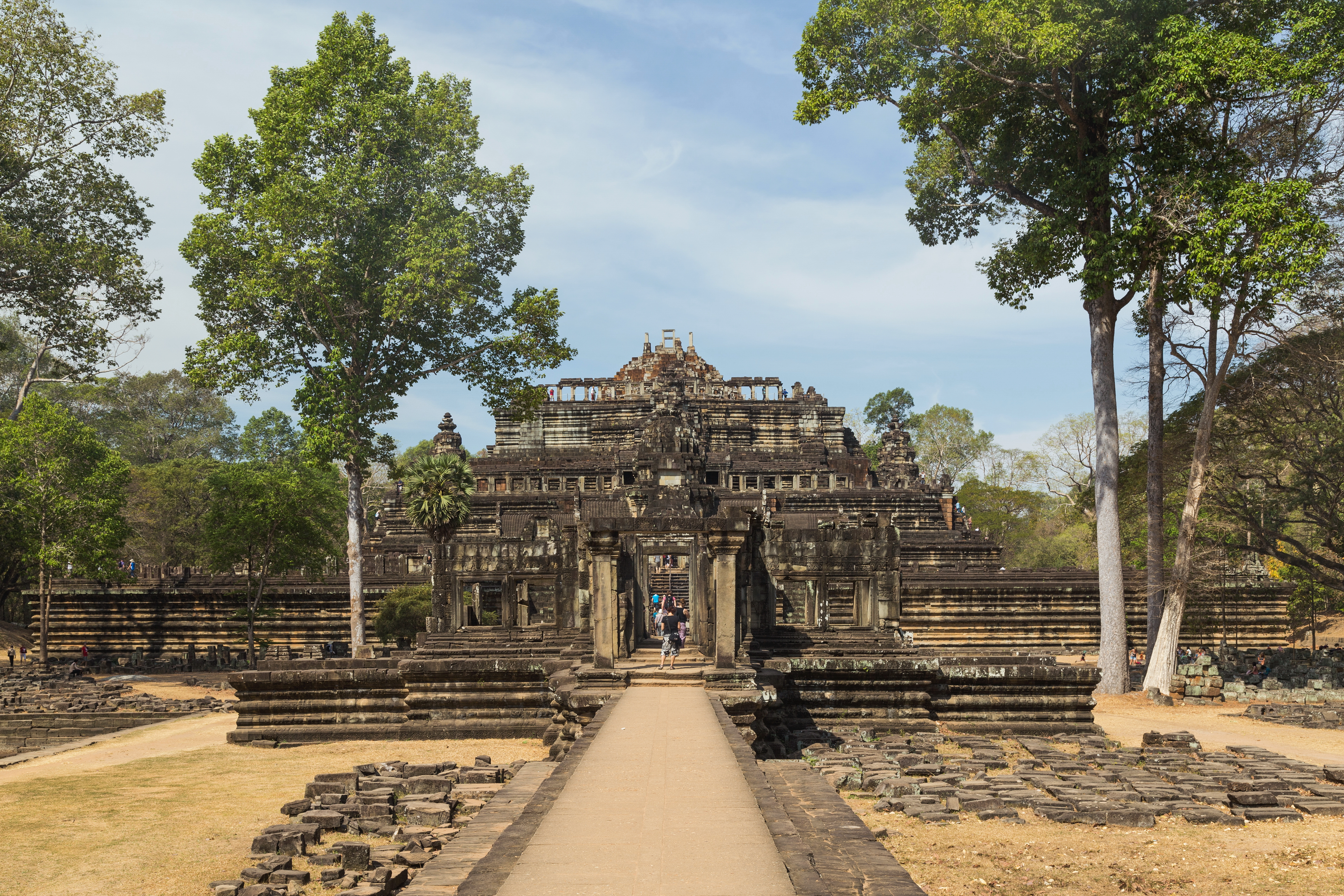 Baphuon. Angkor Thom, Siem Reap Province, Cambodia.